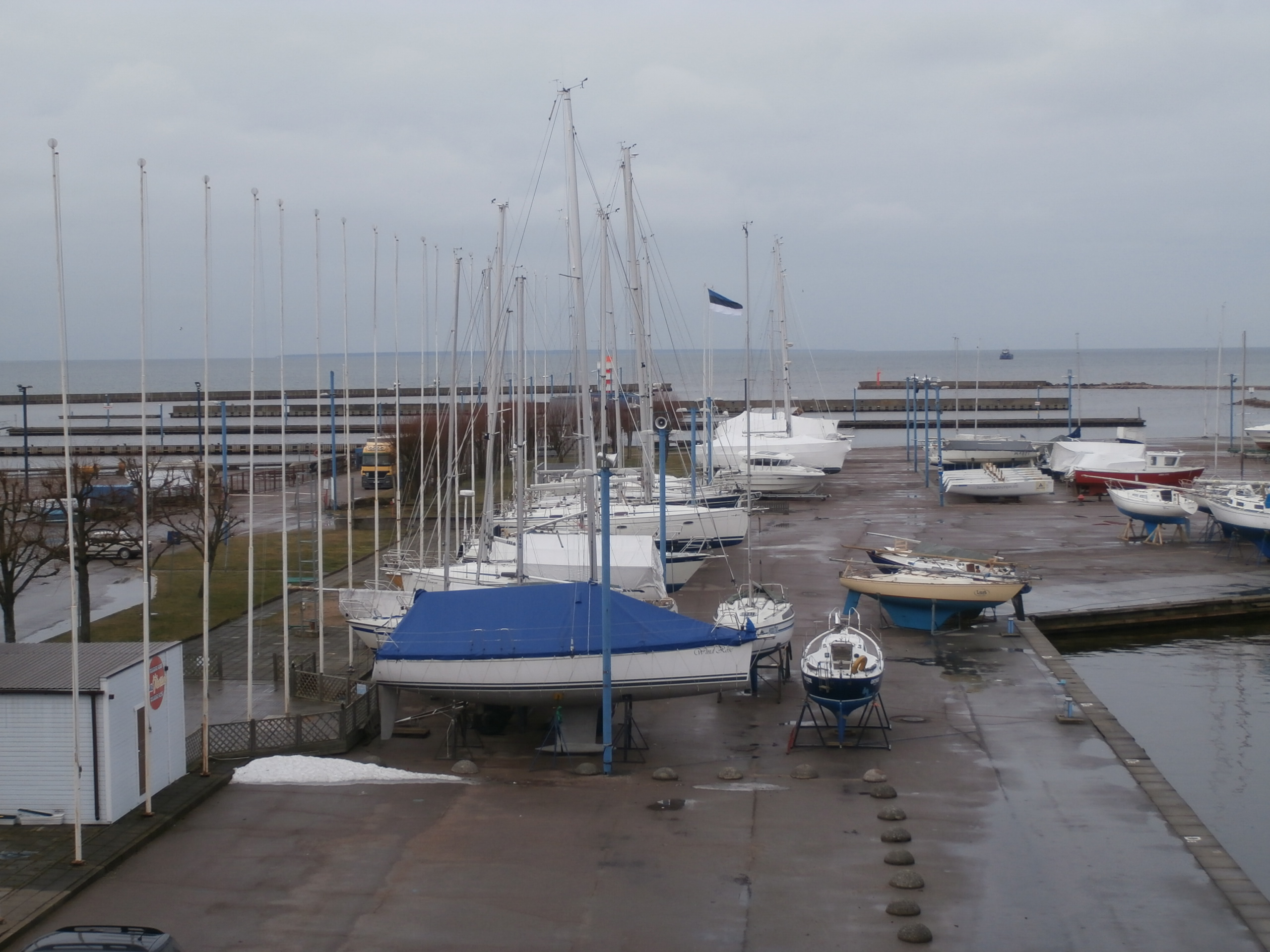 Sailing yachts at Pirita Slip Tallinn 23 February 2015 (Excalibur 2 in the background)